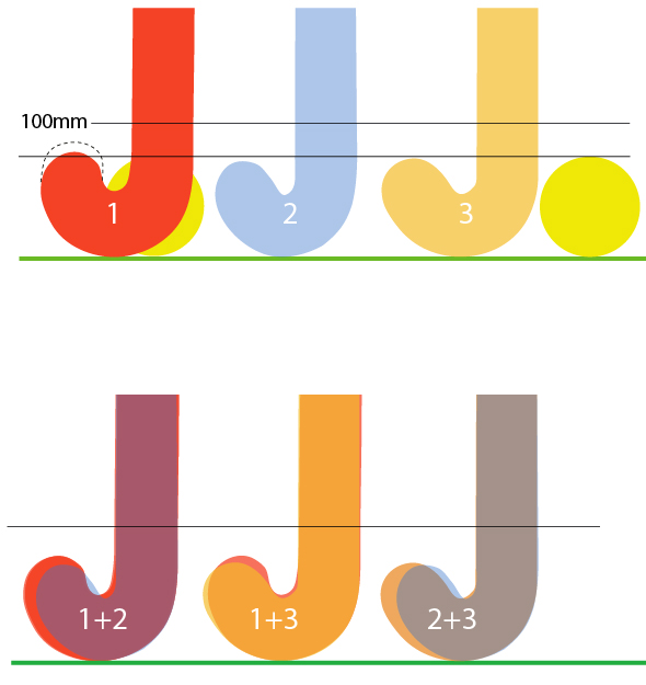 Comparison of original shape of hook stick circa 1986 and present hook shapes.